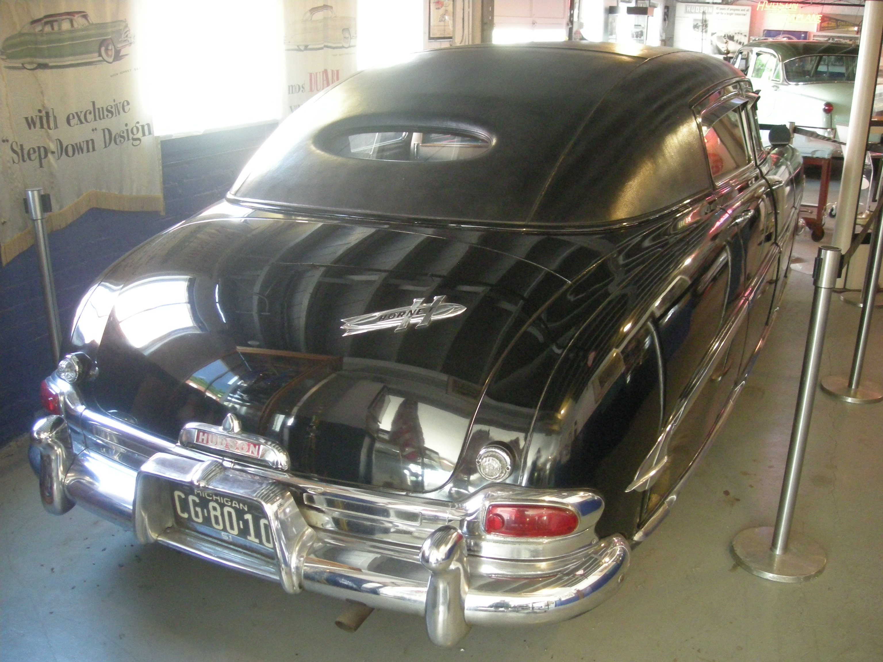 A 1951 Hudson Hornet Limousine at the Ypsilanti Automotive Heritage Museum in Ypsilanti, Michigan (United States).